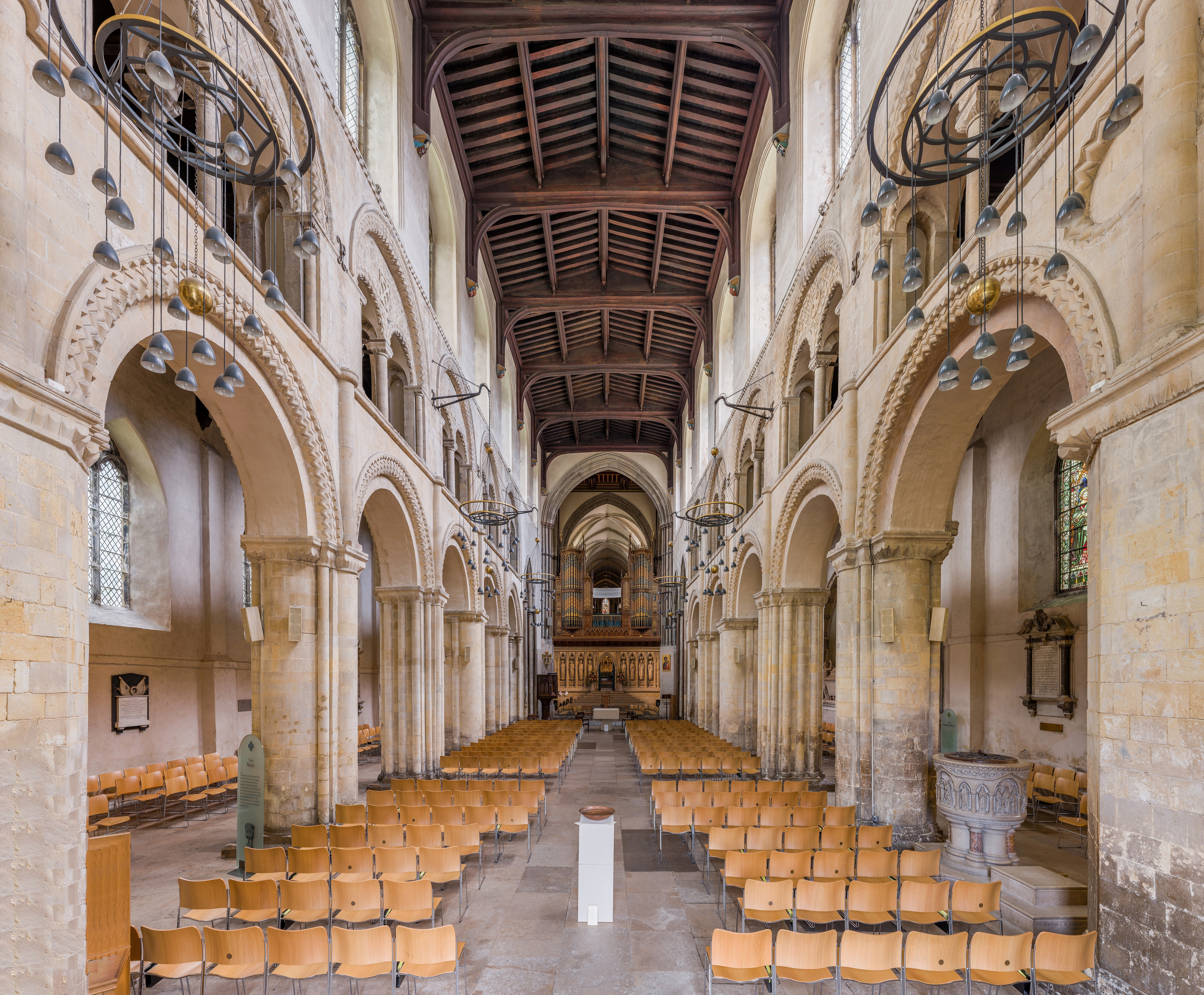 The nave of Rochester Cathedral, facing east